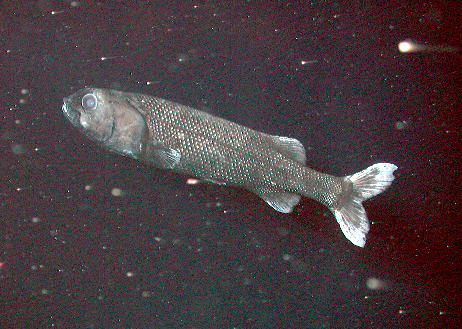 California slickhead (Alepocephalus tenebrosus) on the Davidson Seamount at 1551 meters depth.